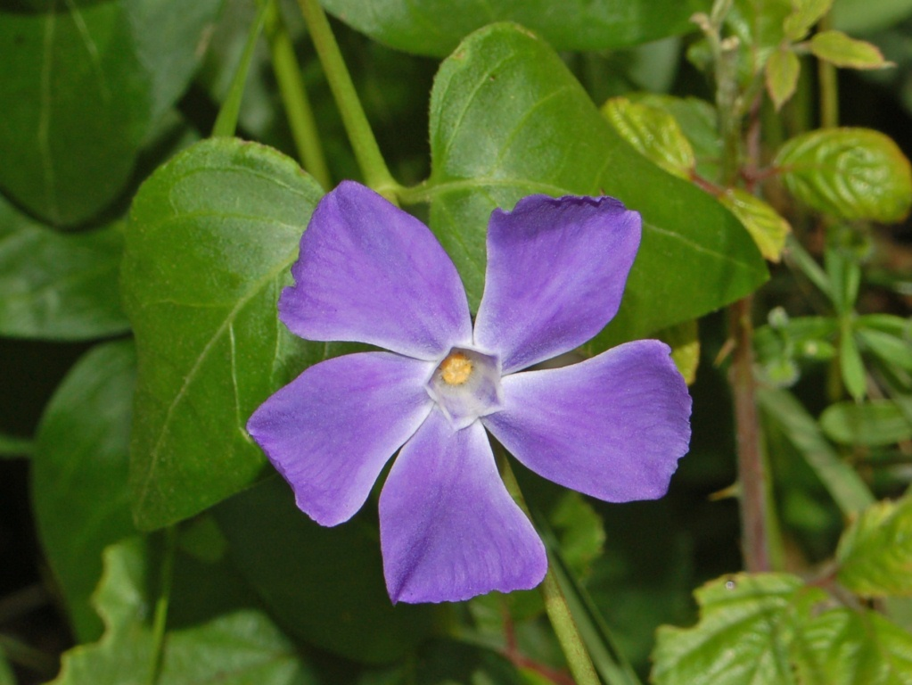 Vinca major - Genova, Italy